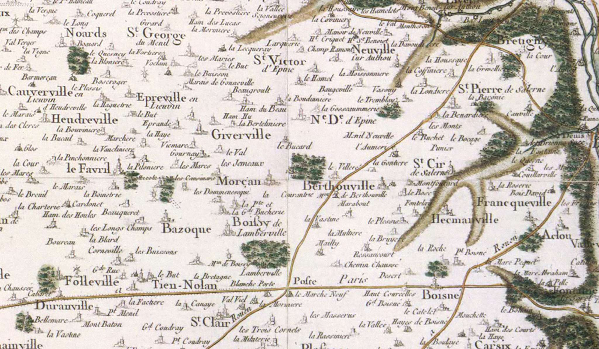 Detail of the map Lisieux-Honfleur. new edition. No.61, centered on Morsan, department Eure, France.